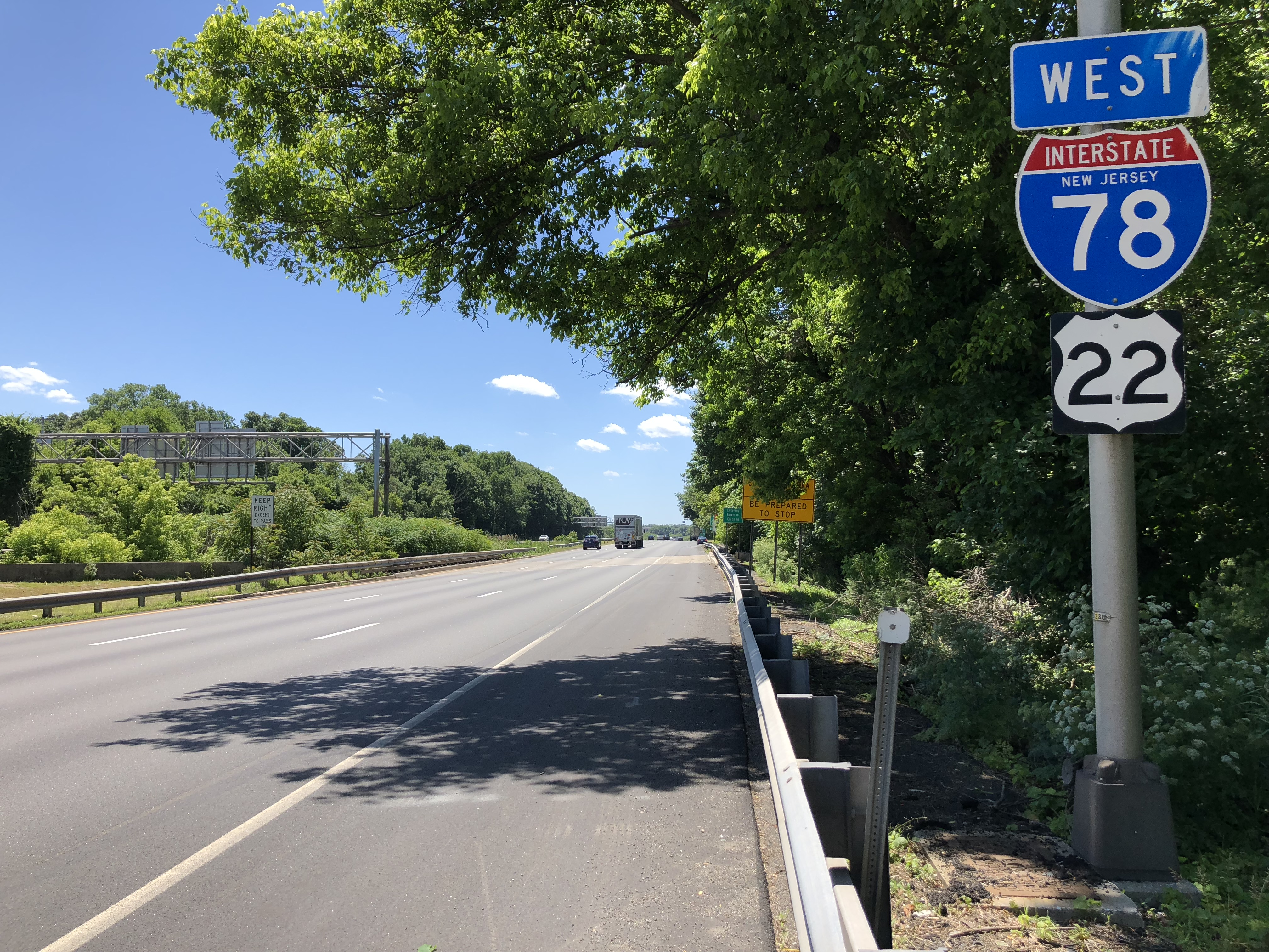 View west along Interstate 78 and U.S. Route 22 (Phillipsburg-Newark Expressway) between Exit 17 and Exit 15 in Clinton, Hunterdon County, New Jersey